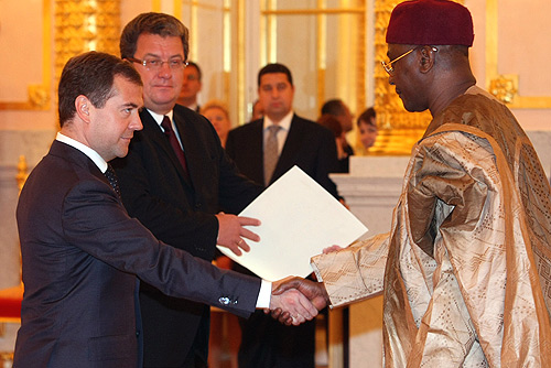 THE KREMLIN, MOSCOW. Ambassador of the Federal Republic of Nigeria Timothy Mai Shelpidi presents his letter of credentials to the President of Russia.